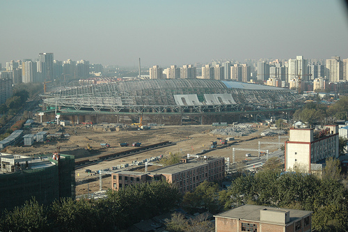 The Beijing South Railway Station during reconstruction